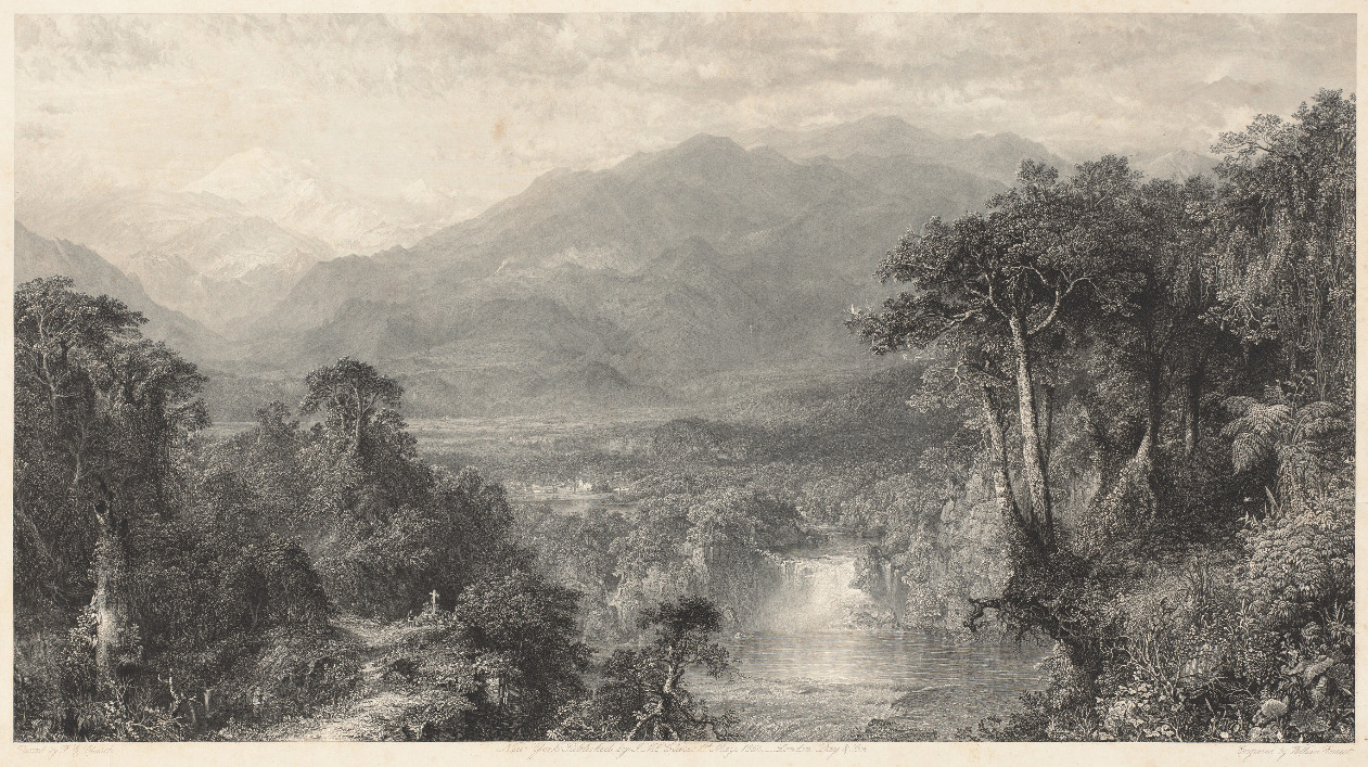 engraving of Church's The Heart of the Andes